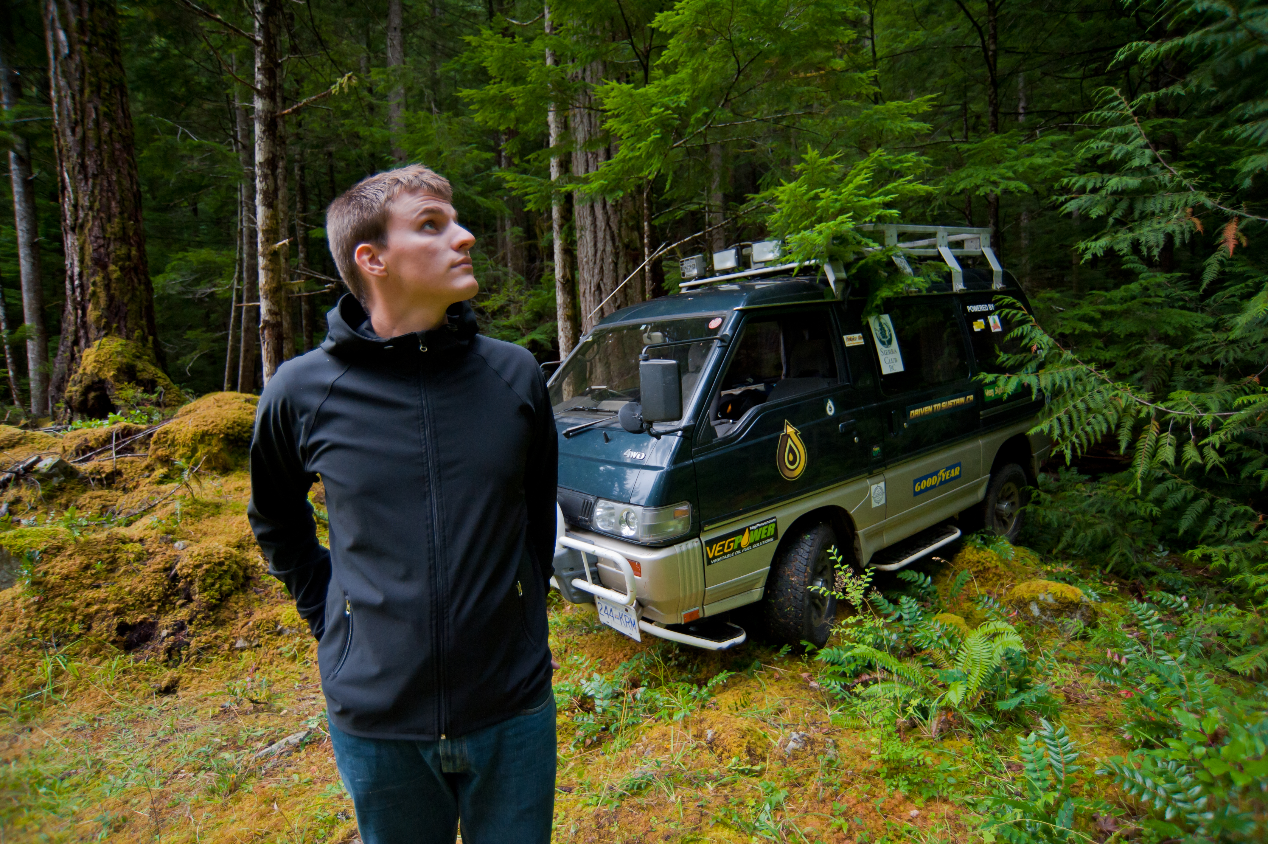 Guinness World Record holder for Longest Journey by Car Using Alternative fuel, Tyson Jerry standing in cathedral grove, Vancouver Island with his record breaking Mitsubishi Delica.